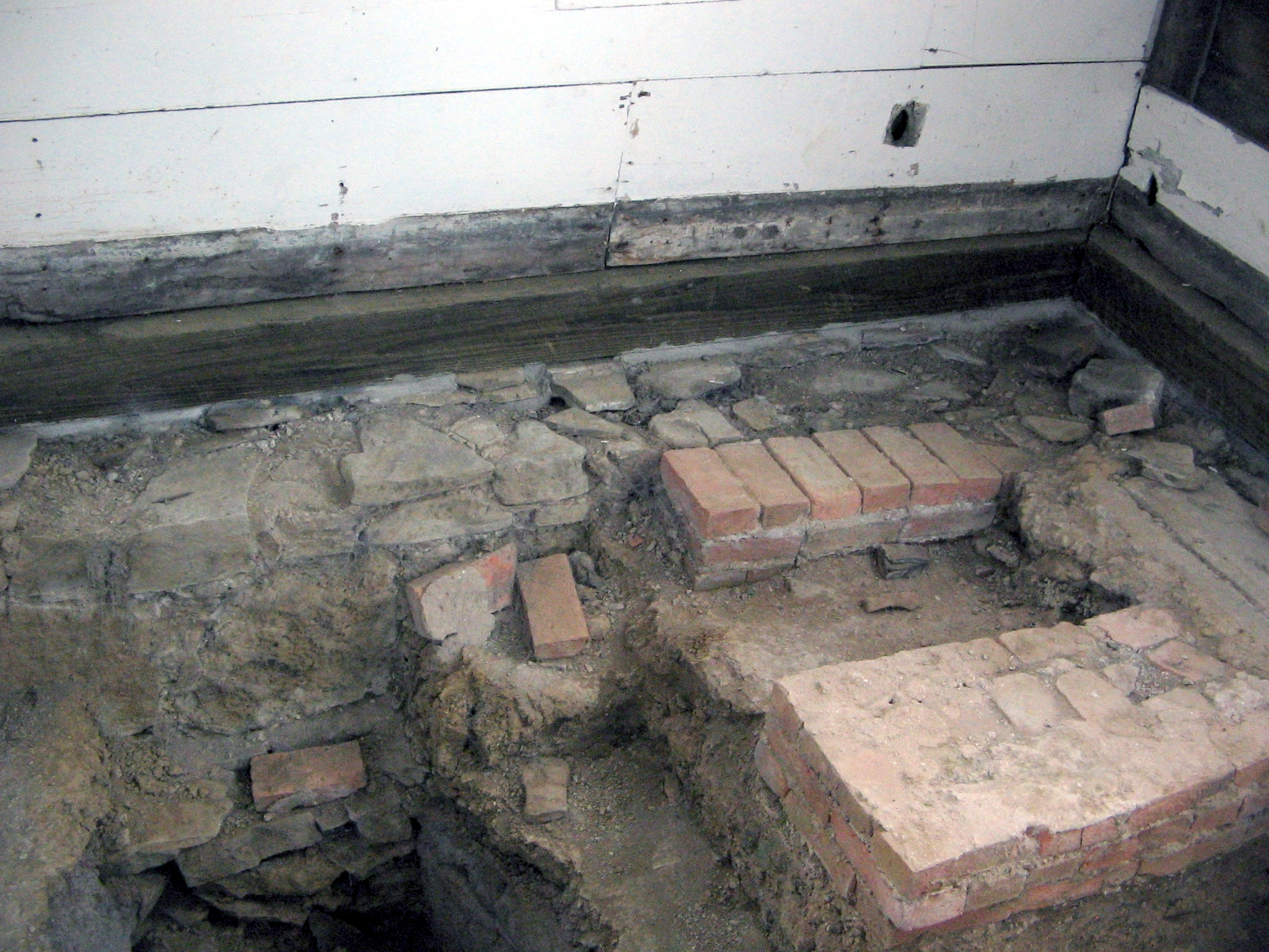 Northwest end of the Laboratory with excavation of lab floor showing remnants of one lab oven in the Joseph Priestley House in Northumberland, Northumberland County, Pennsylvania, USA. The lab's fume hood was above this oven.